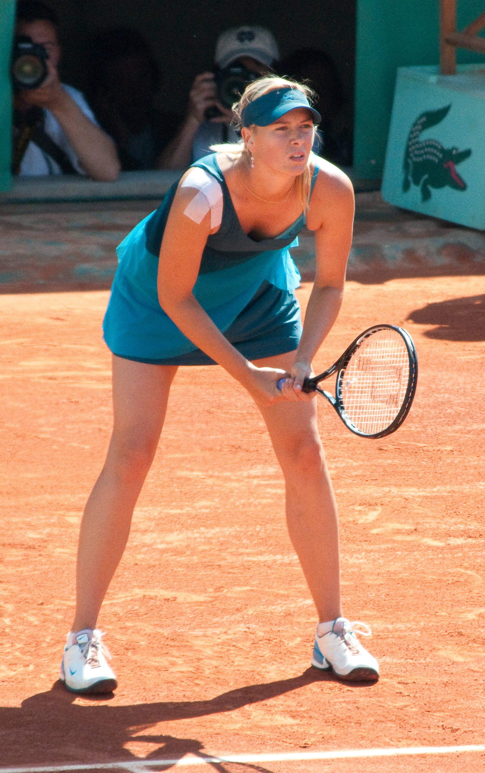 Maria Sharapova at 2009 Roland Garros, Paris, France